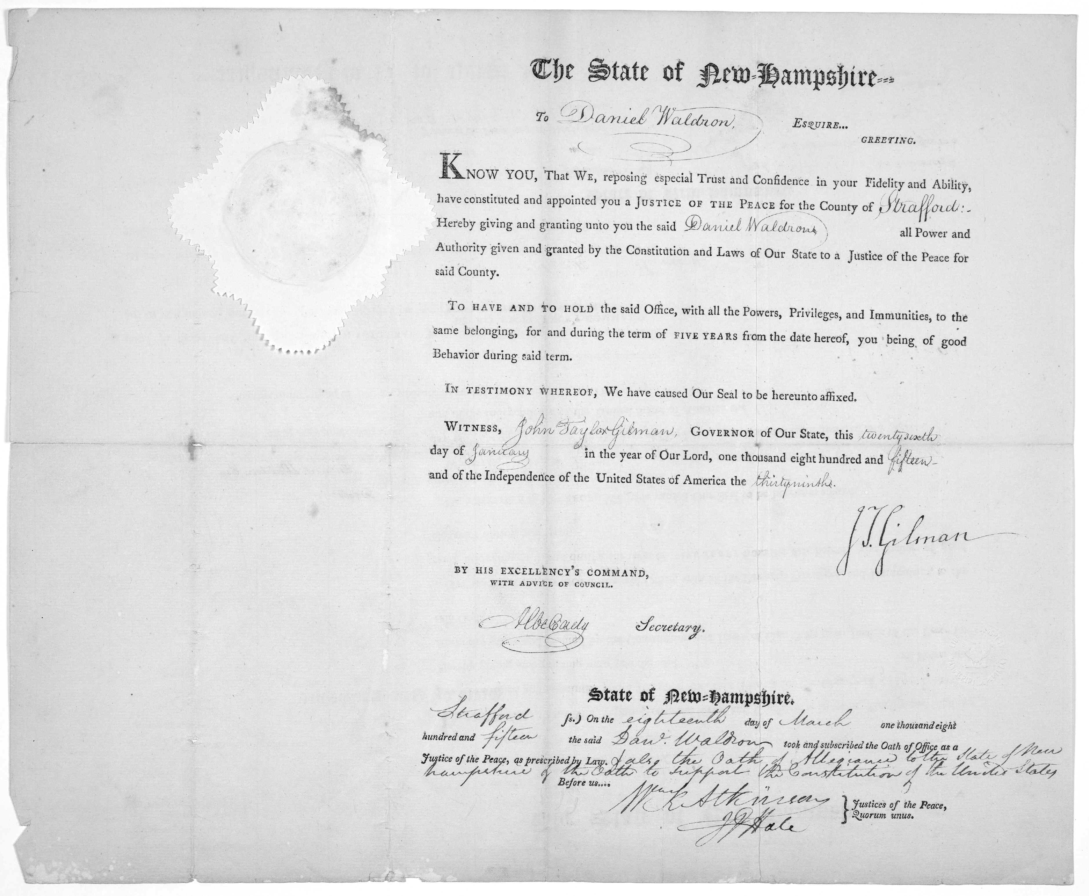 Order of John Taylor Gilman, Governor of New Hampshire, naming Daniel Waldron a Justice of the Peace for Strafford County, New Hampshire, 1815. The Library of Congress, Washington, D.C.